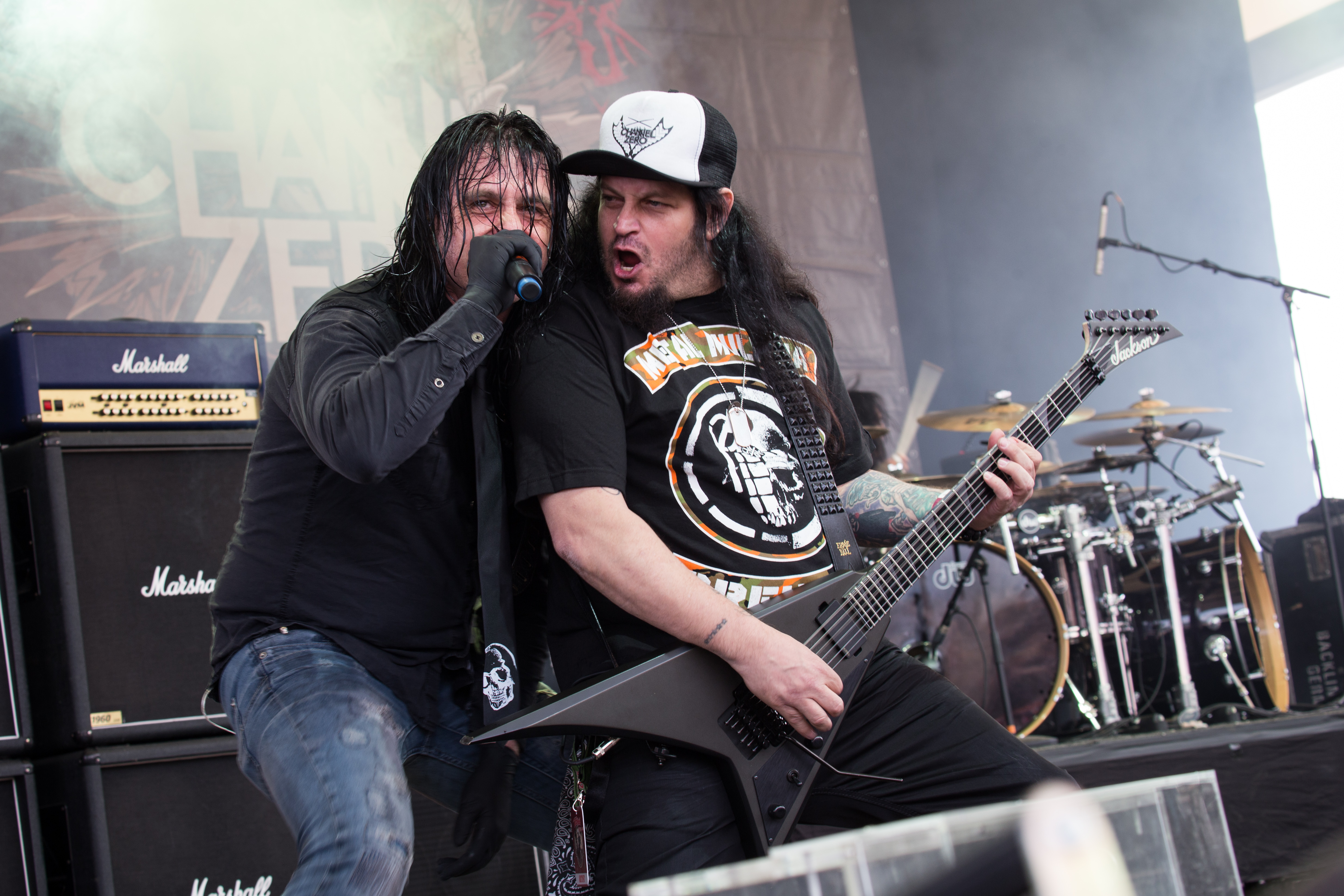 Channel Zero performing live at Rock Hard Festival, May 2015, Gelsenkirchen